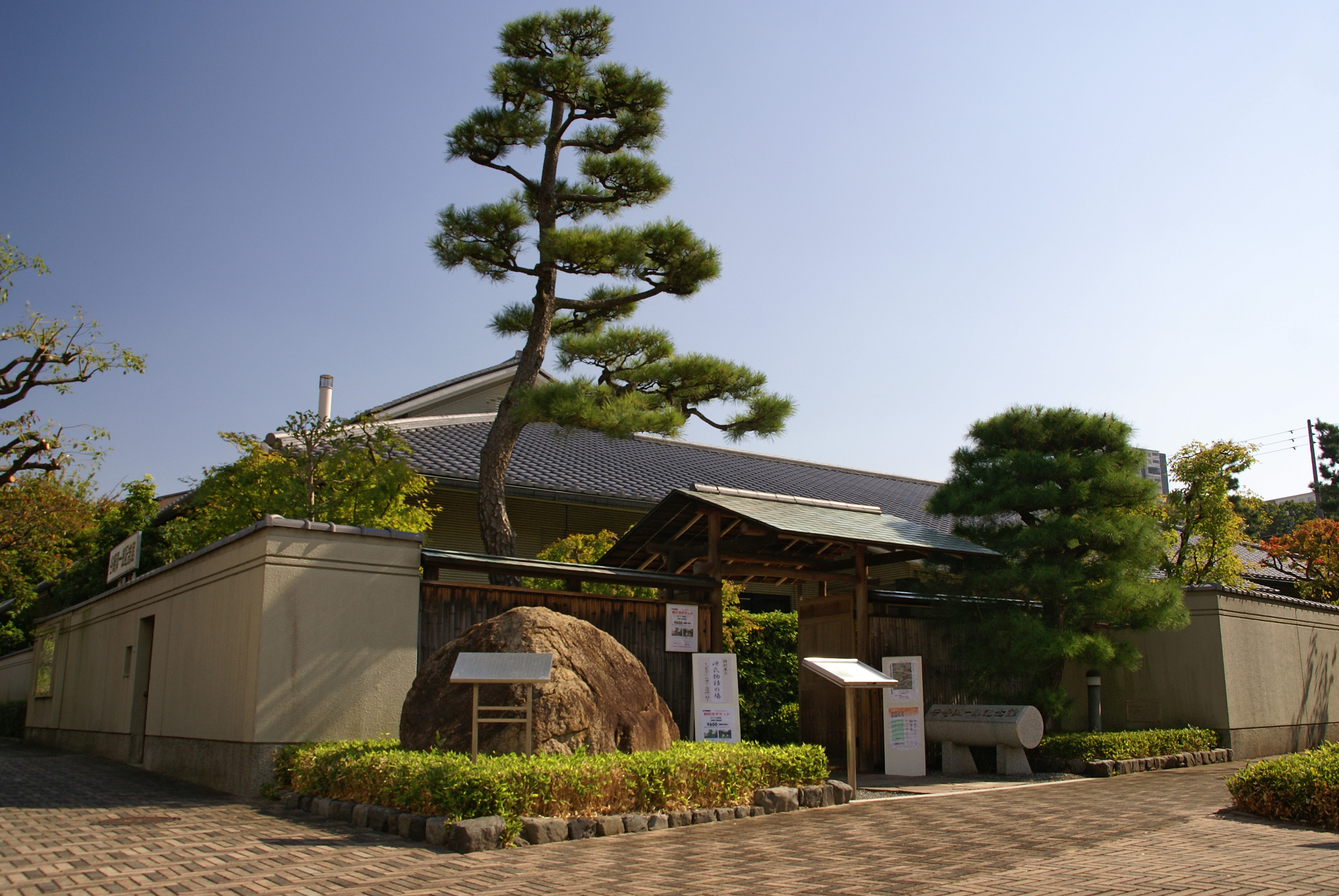 Tanizaki Junichiro Memorial Museum of Literature, Ashiya in Ashiya, Hyogo prefecture, Japan